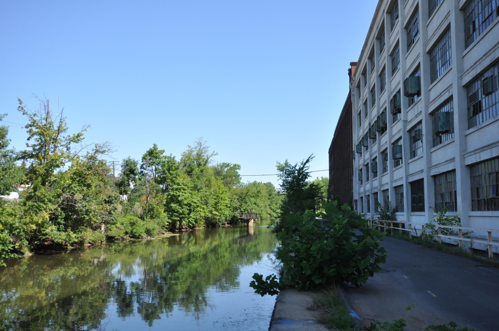 Enfield Canal, Windsor Locks, Connecticut. The former Montgomery Company plant is on the right.